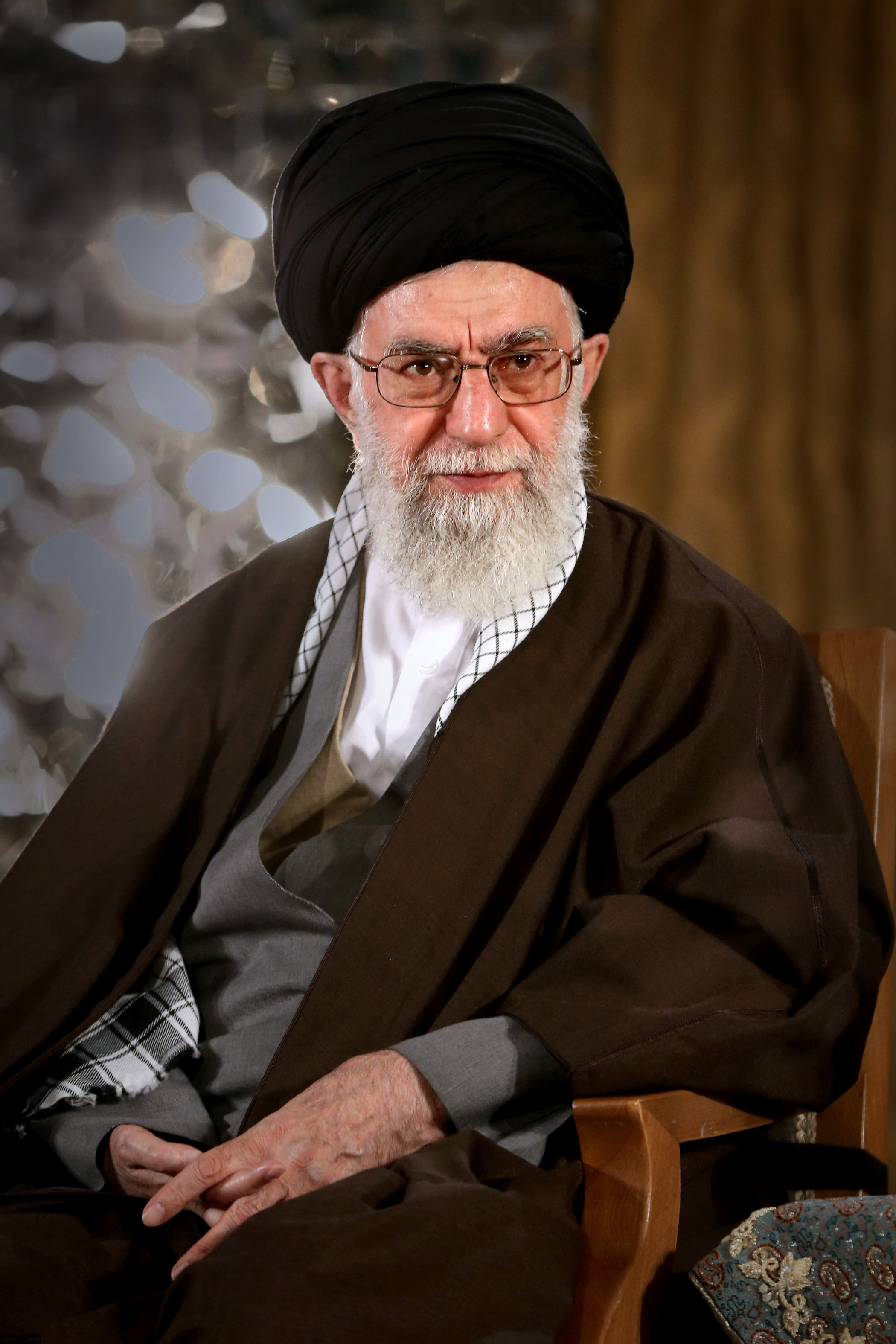 Supreme Leader, Ali Khamenei delivers Nowruz message in his office